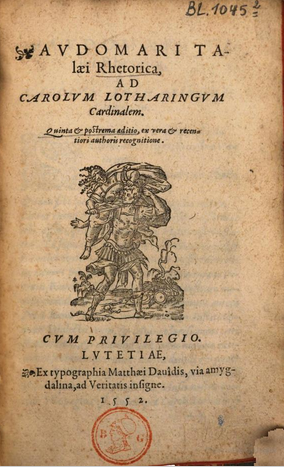 Rhetorica..., 1552, Audomarus Talaeus/Omer Talon (1510-1562)